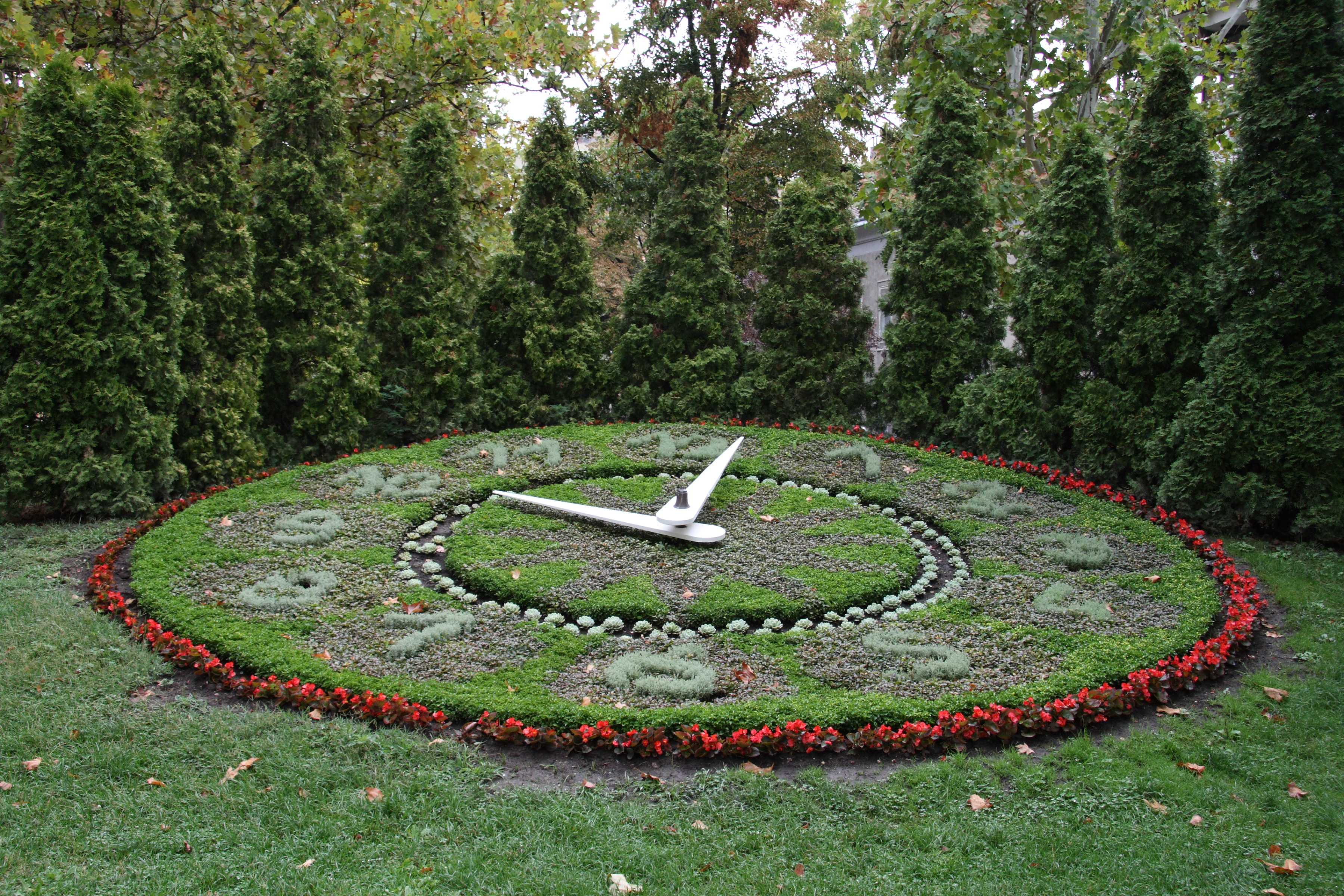 Flower Clock in the city of Székesfehérvár